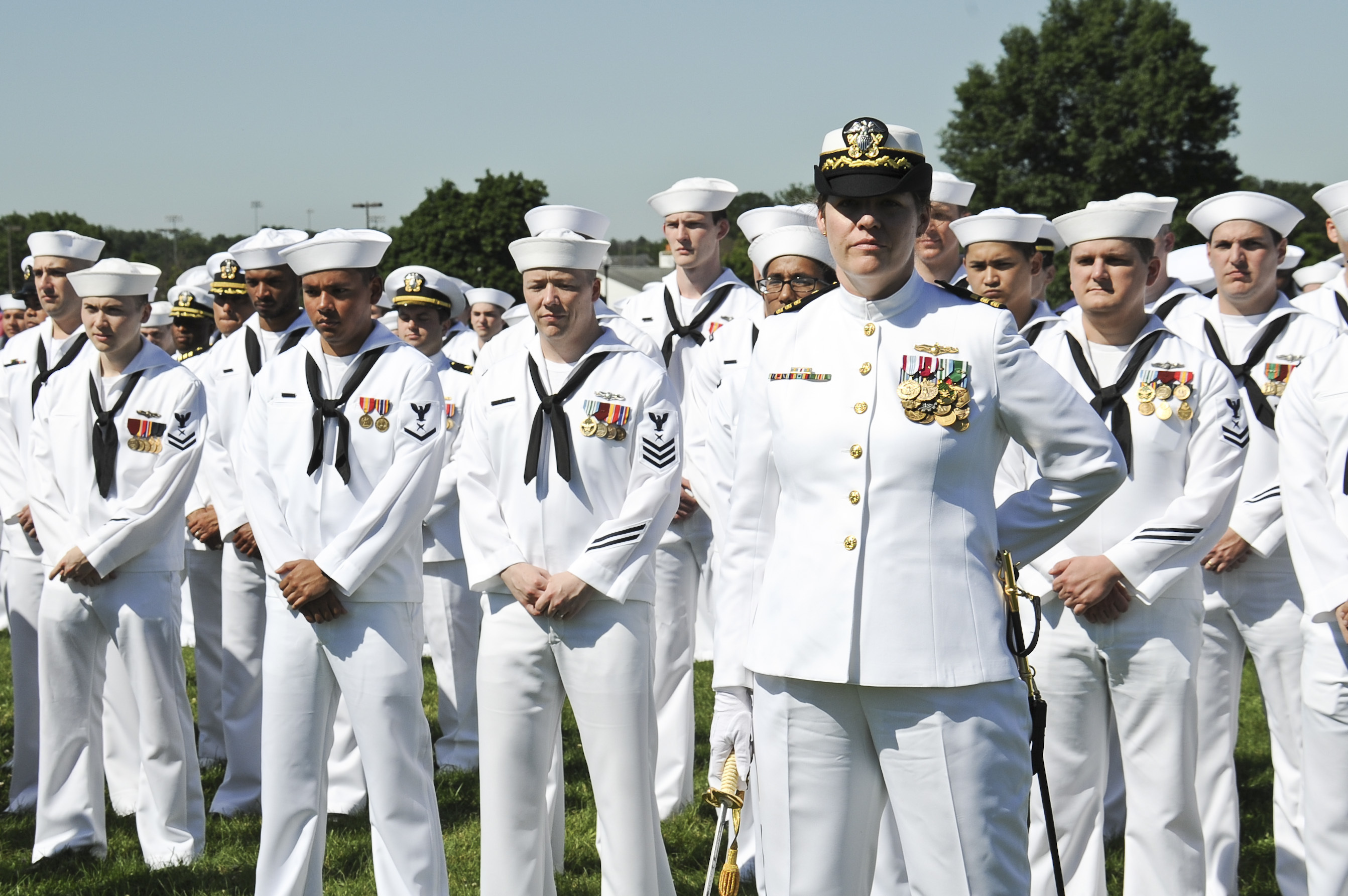 170609-N-KW733-048 FORT GEORGE G. MEADE, Md. (June 9, 2017) -- Cmdr. Deborah Yusko, commander, Cyber Strike Activity (CSA) 63, stands at parade rest in formation with her Sailors during a change of command ceremony held at McGlachlin Parade Field on Fort George G. Meade, Md. Capt. Joe Johnson relieved Capt. Jeffrey Scheidt as commanding officer, CWG-6, formerly Navy Information Operations Command Maryland. The primary mission of CWG-6 and subordinate commands is to provide cryptologic and related intelligence information to fleet, joint and national commanders as well as administrative and personnel support to Department of the Navy members assigned to the Fort Meade area. (U.S. Navy photo by Mass Communication Specialist 3rd Class Julia Williams/Released)